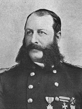 George Keyports Brady from Brady Family Reunion and Fragments of Brady History and Biography by William Gray Murdock, published in 1909 by William G. Murdock of Milton, Pennsylvania, page 44.